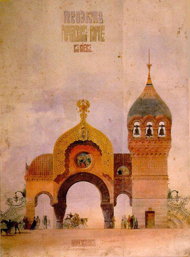 Viktor Hartmann: Plan for a City Gate in Kiev.